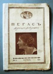 Cover of PEGASUS magazine, 1916, #4 (April)